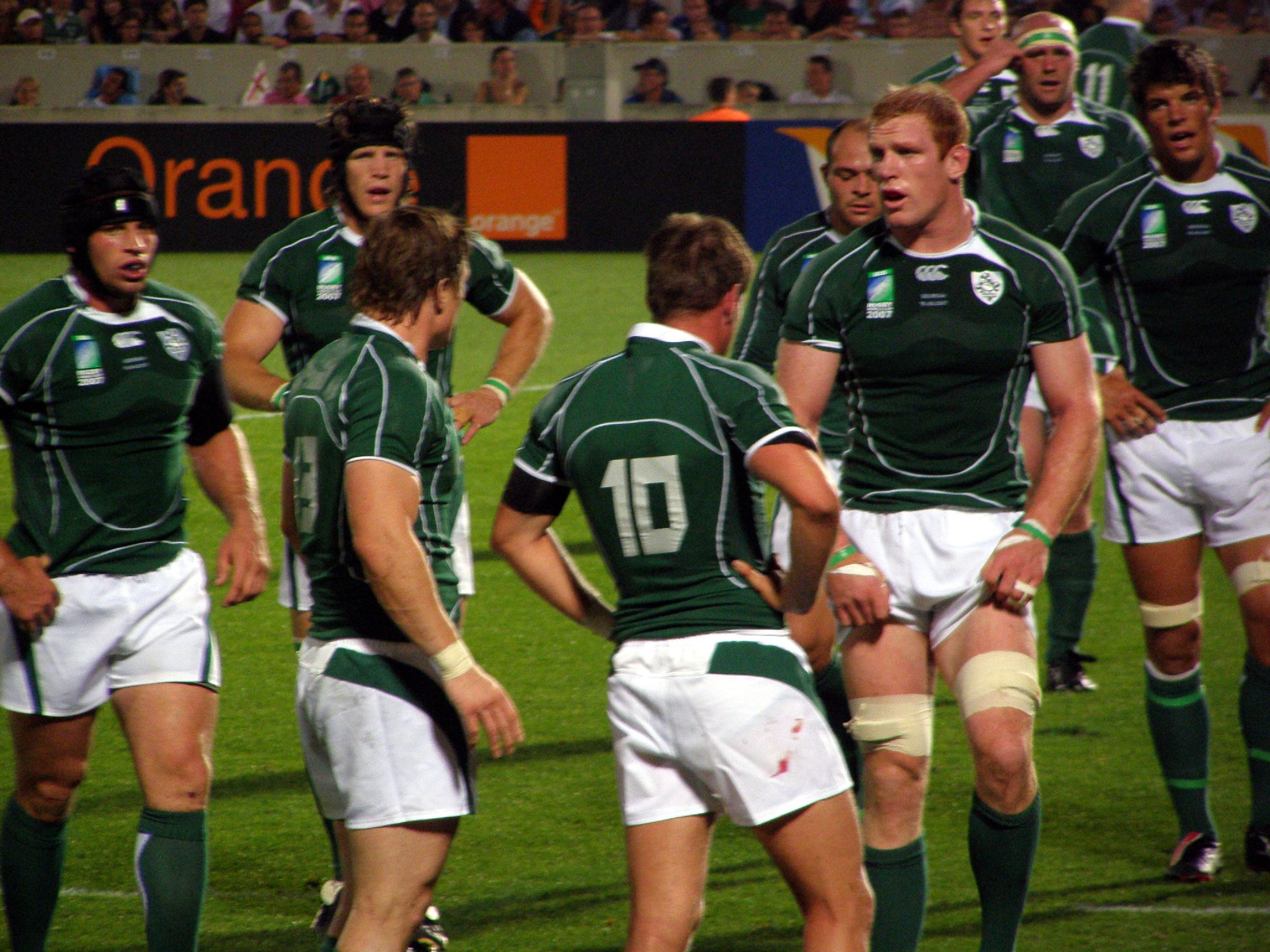 Ireland vs Georgia, Rugby World Cup 2007. Stade Chaban Delmas, Bordeaux, France. Ronan O'Gara n°10, the two locks Donncha O'Callaghan and Paul O'Connell, the boss Brian O'Driscoll... In BOD we trust